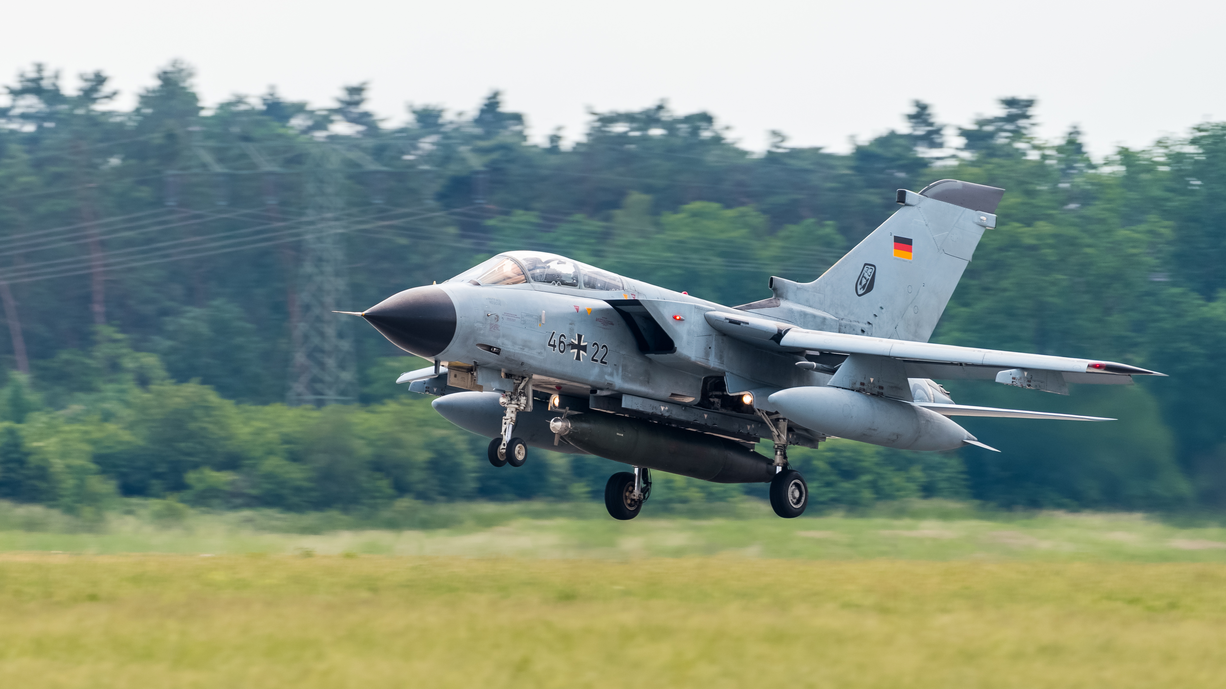 Panavia Tornado IDS (reg. 46+22) of the German Air Force at ILA Berlin Air Show 2016.